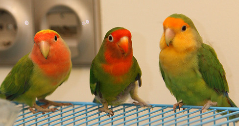 A trio of peach-faced lovebirds. The left one has a standard "peach-face" crest, the middle one is a peach-face and a fischeri hybrid (as indicated by the two-colored beak and smaller body size) and the right one is a color mutation aptly named as "orange-faced"